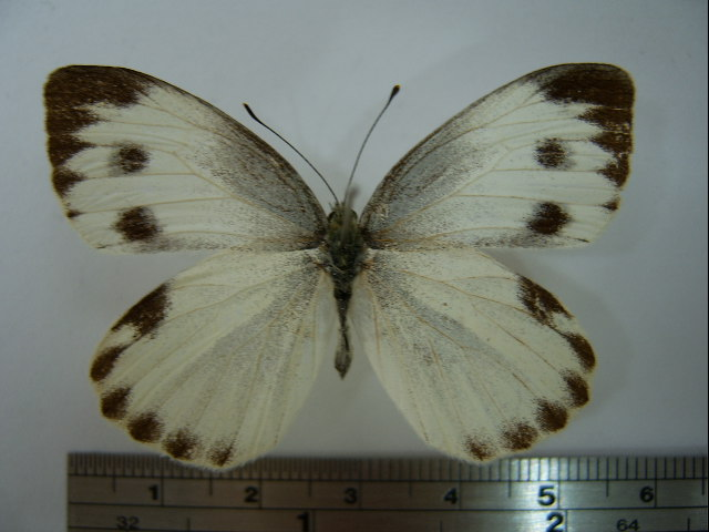 Kerry took this picture at his house on 16 July 2005 Scientific name: Pieris canidia ♀ Date of collection: III 1996 Place of collection: Taipei city, Taiwan